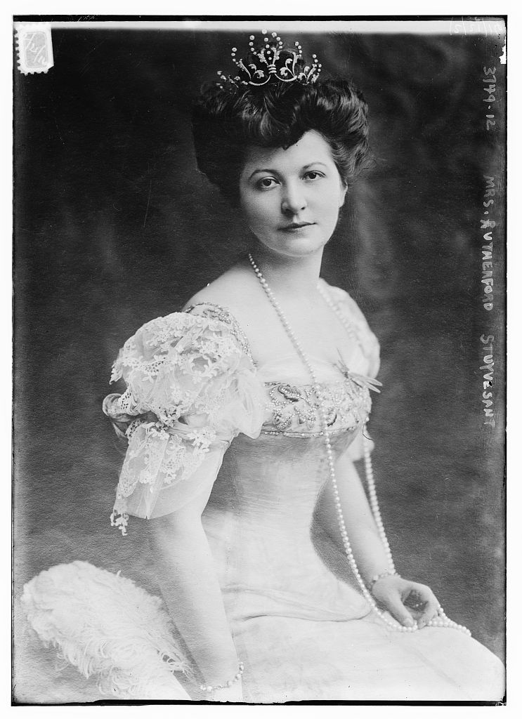 Bain News Service,, publisher. Mrs. Rutherford Stuyvesant [between ca. 1915 and ca. 1920] 1 negative : glass ; 5 x 7 in. or smaller. Notes: Title from unverified data provided by the Bain News Service on the negatives or caption cards. Forms part of: George Grantham Bain Collection (Library of Congress). Format: Glass negatives. Repository: Library of Congress, Prints and Photographs Division, Washington, D.C. 20540 USA, General information about the Bain Collection is available at Higher resolution image is available (Persistent URL): Call Number: LC-B2- 3749-12